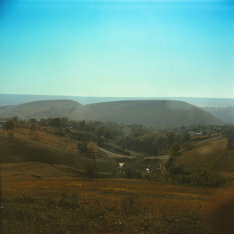 Edinet district. Next start Carpathians.